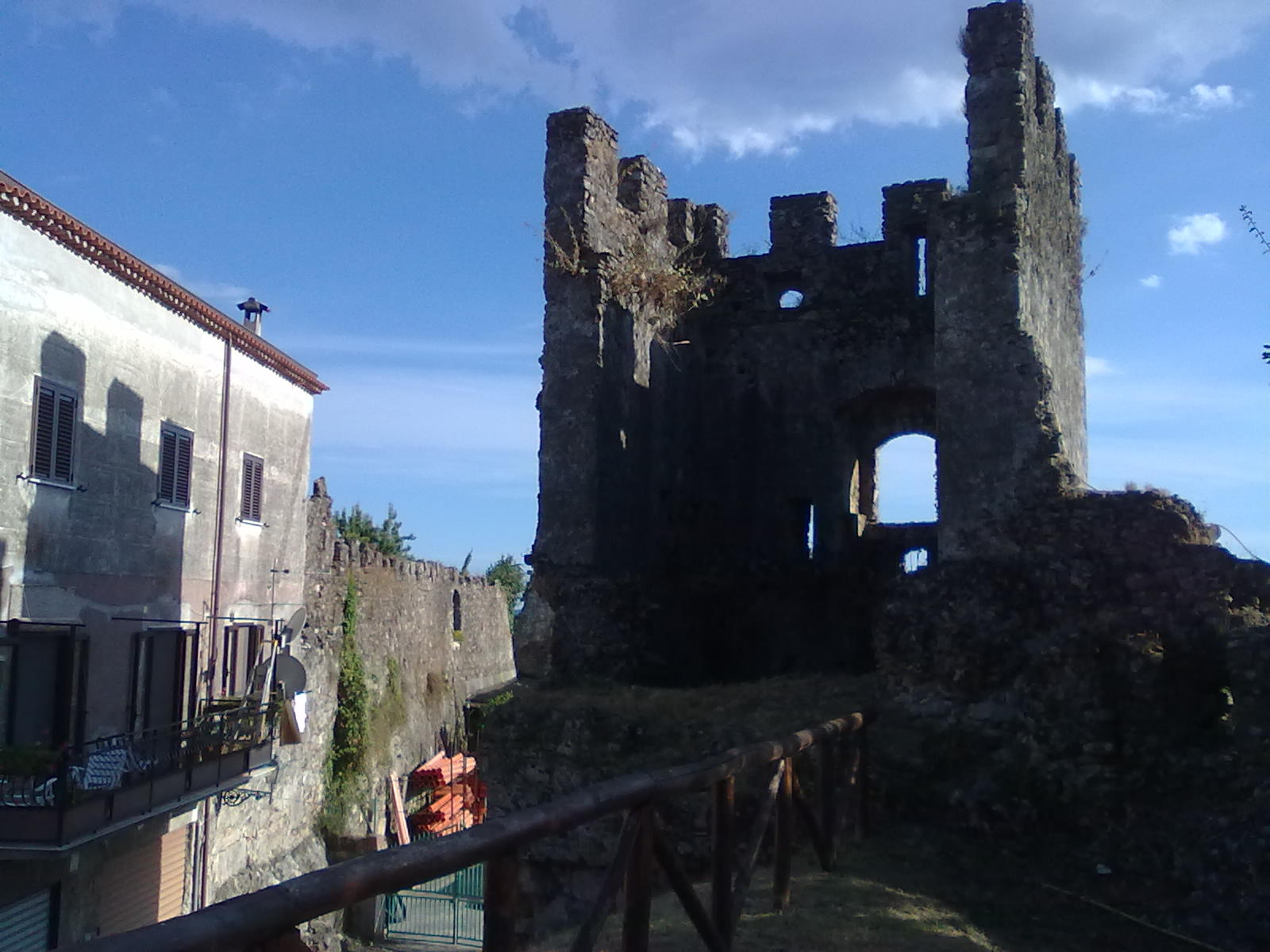 Defensive wall of Policastro